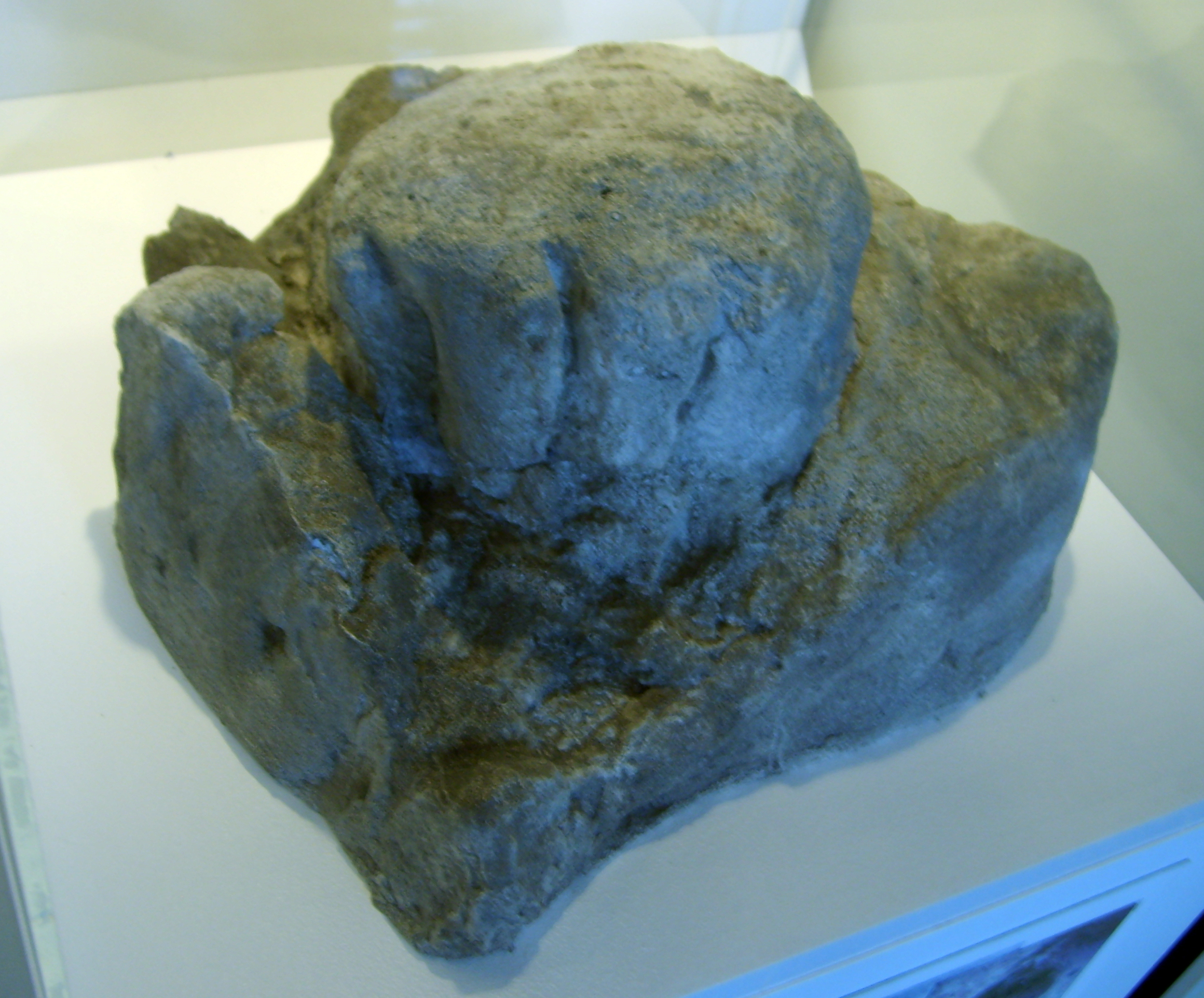 Cast of a thyreophoran dinosaur track from the Bagå Formation of Bornholm, at the Geological Museum in Copenhagen.